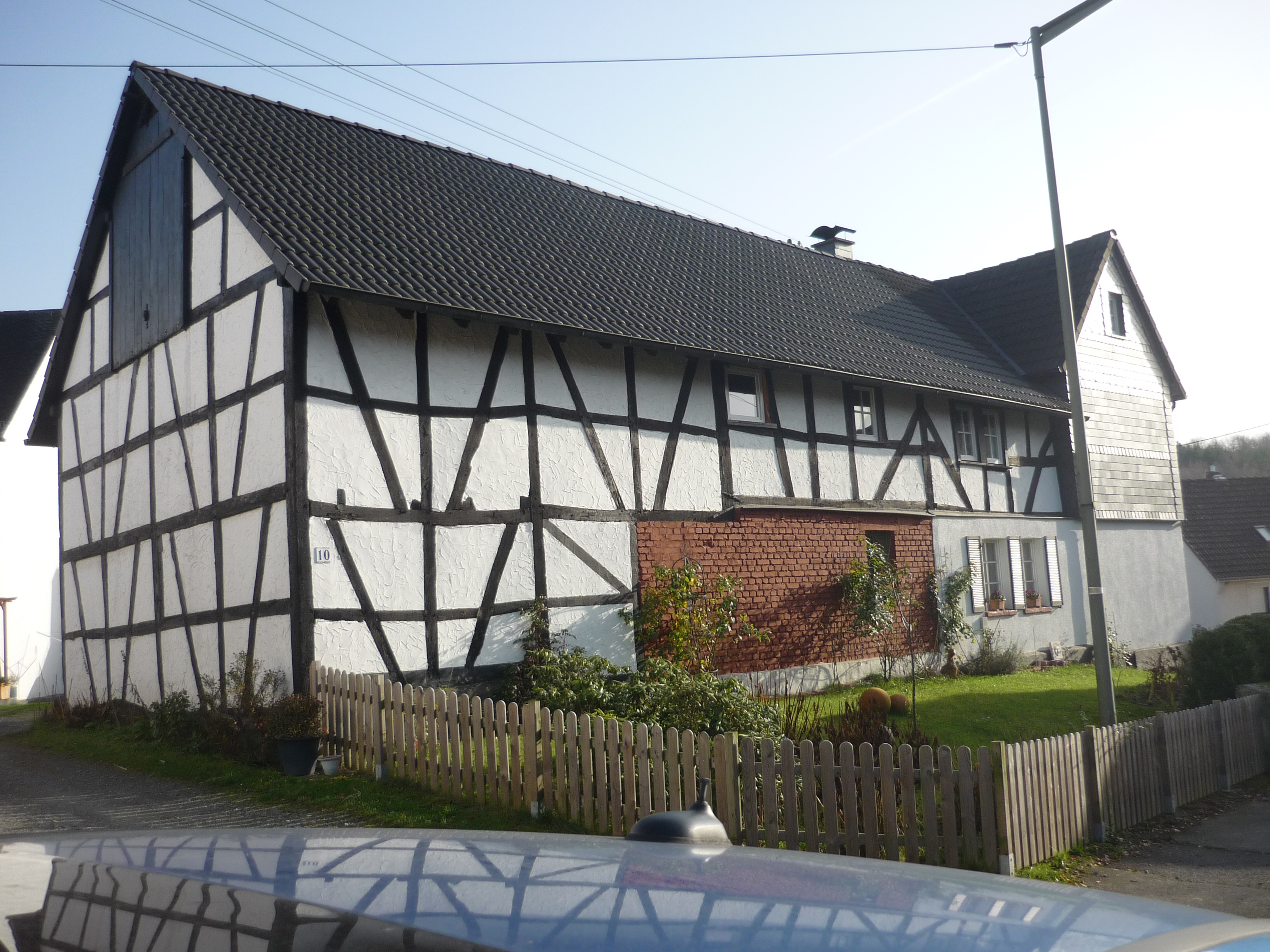 Niedererbach near Altenkichen